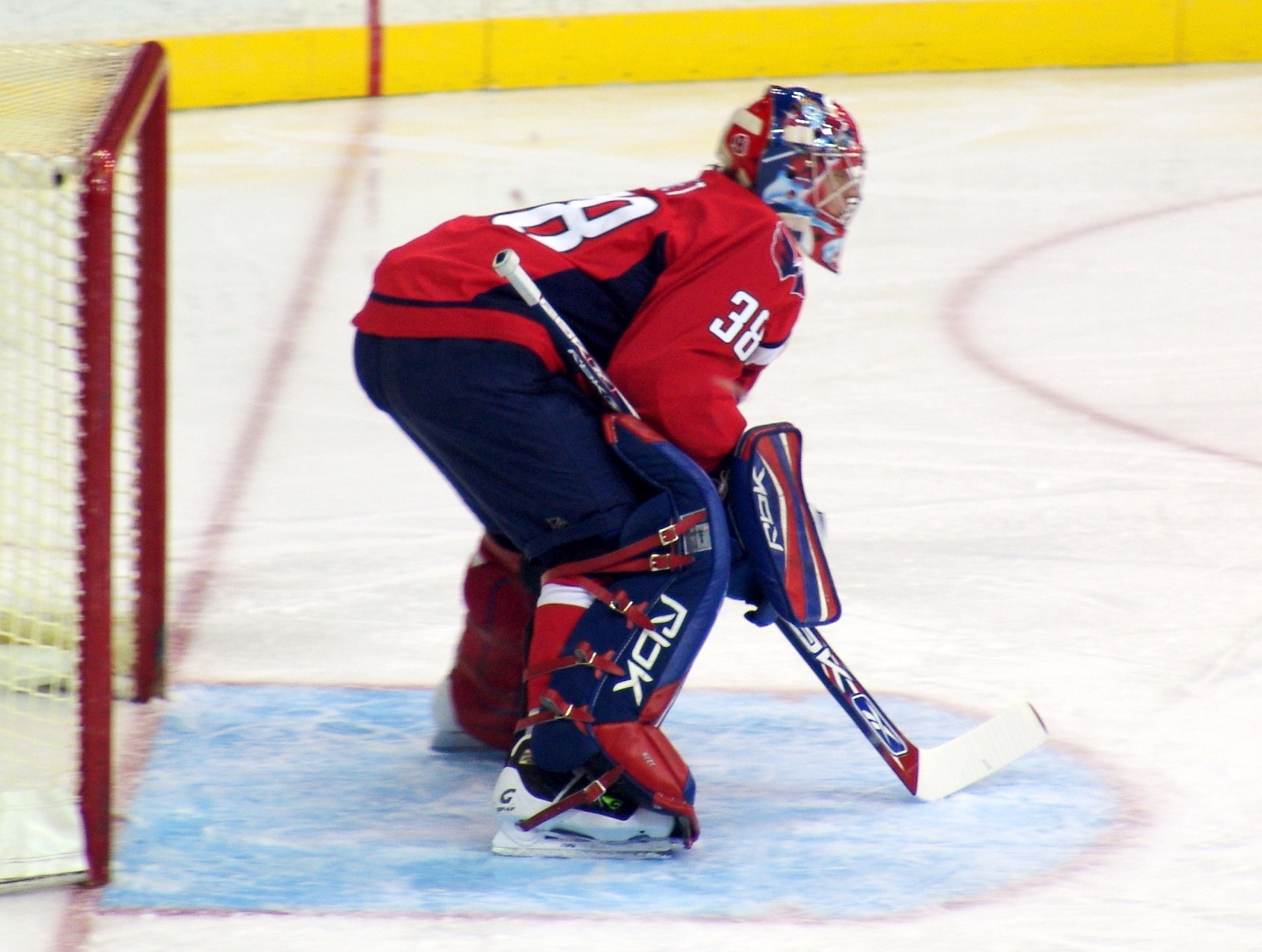 Cristobal Huet in net for the Washington Capitals in a March 9, 2008 game against the Pittsburgh Penguins at Verizon Center in Washington, D.C.